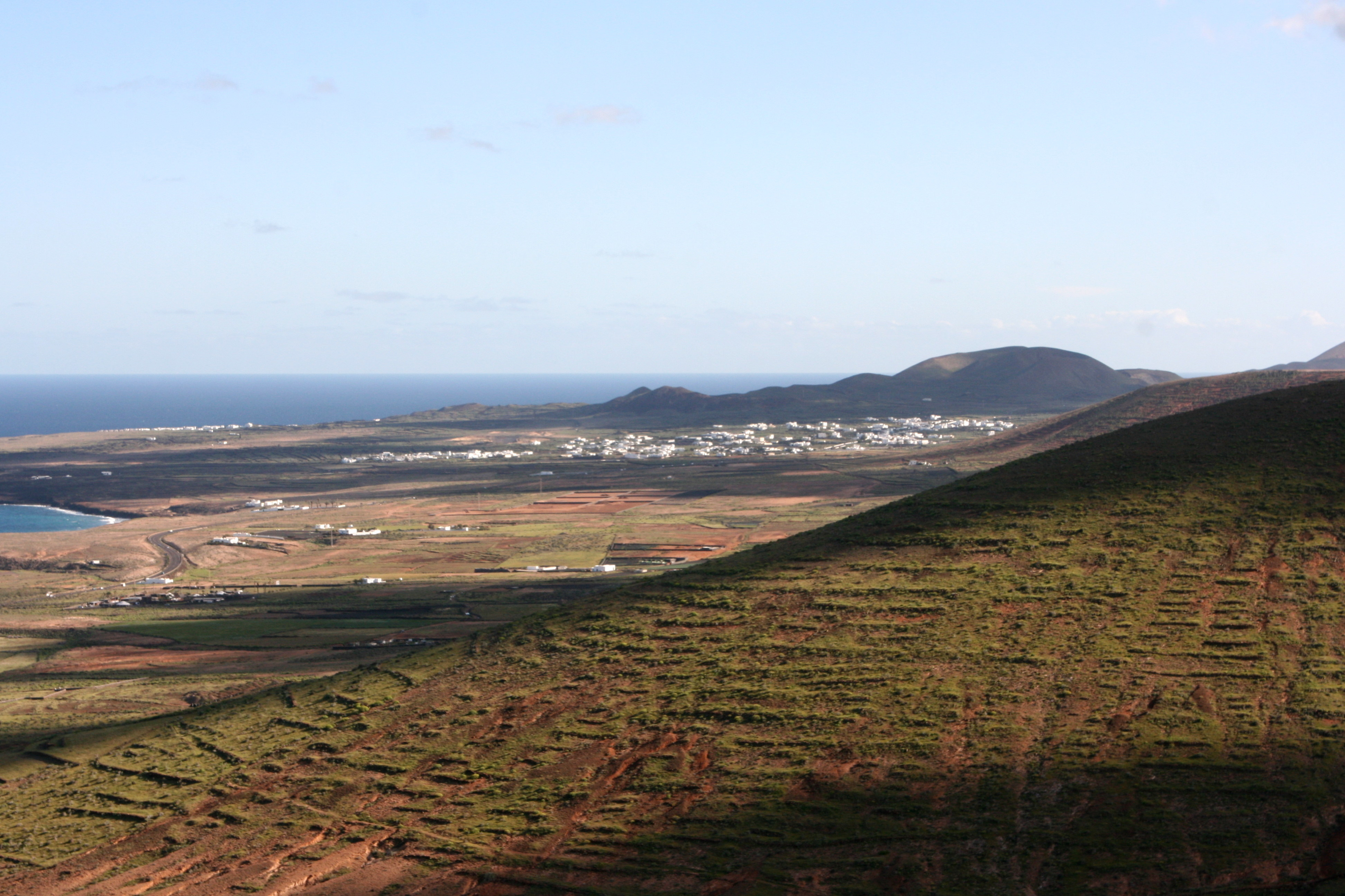 View from Lugar Diseminado Haría (LZ-10) down to Mala, Haría, Lanzarote, Canary Islands